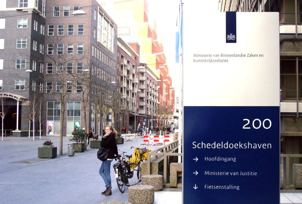 Typeface design